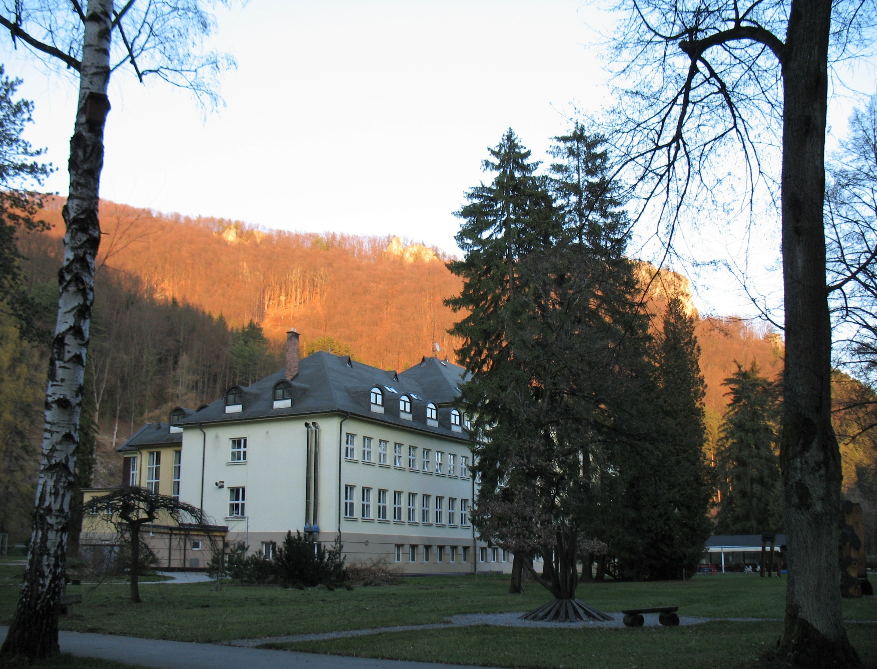 Hotel Skalka in Spa Rajecké Teplice and Mountain Ridge Skalky